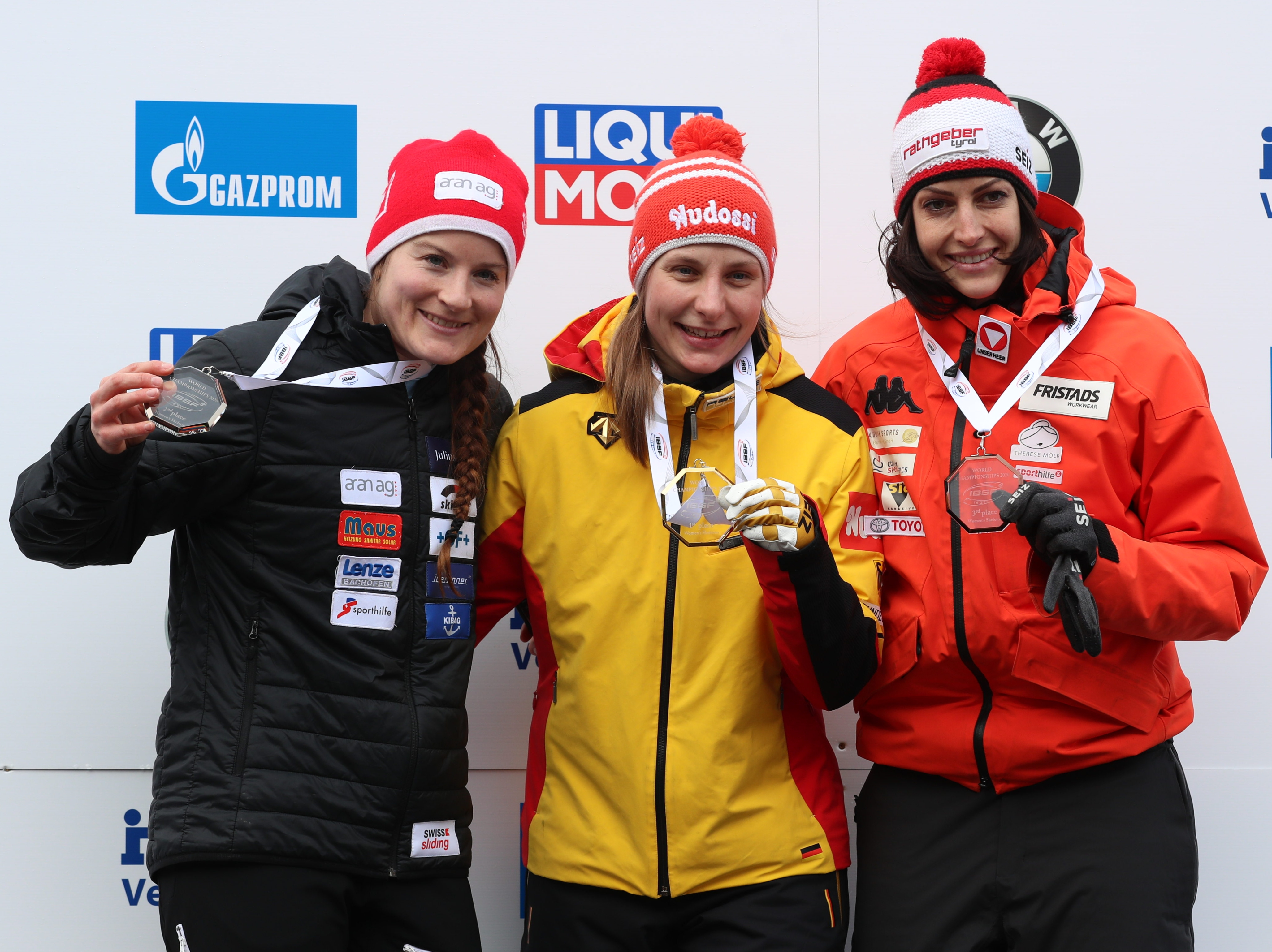 Medal Ceremony at the Women's Skeleton at the Bobsleigh and Skeleton World Championships 2020 in Altenberg